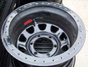 Beadlock6